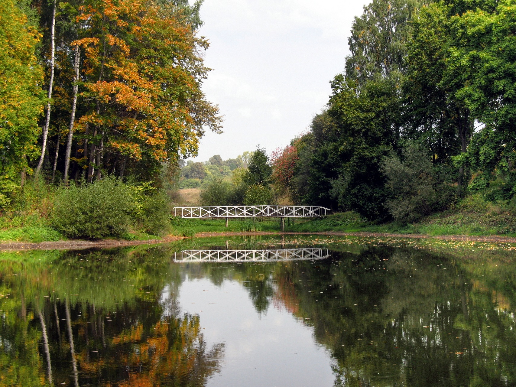 Spasskoye-Lutovinovo, а country estate of Ivan Turgenev